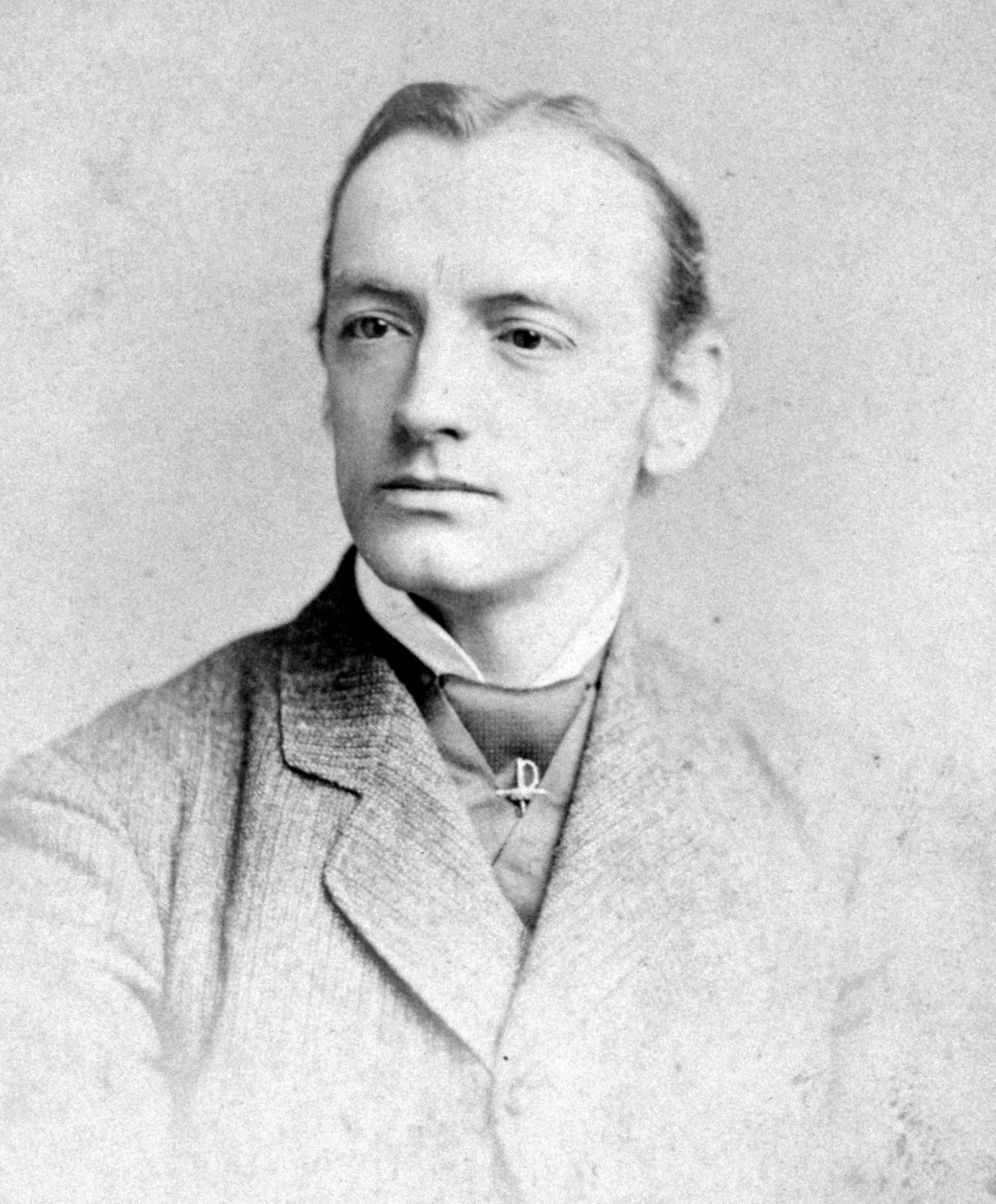 John Cadwalader (1805–1879), head and shoulders, facing slightly left